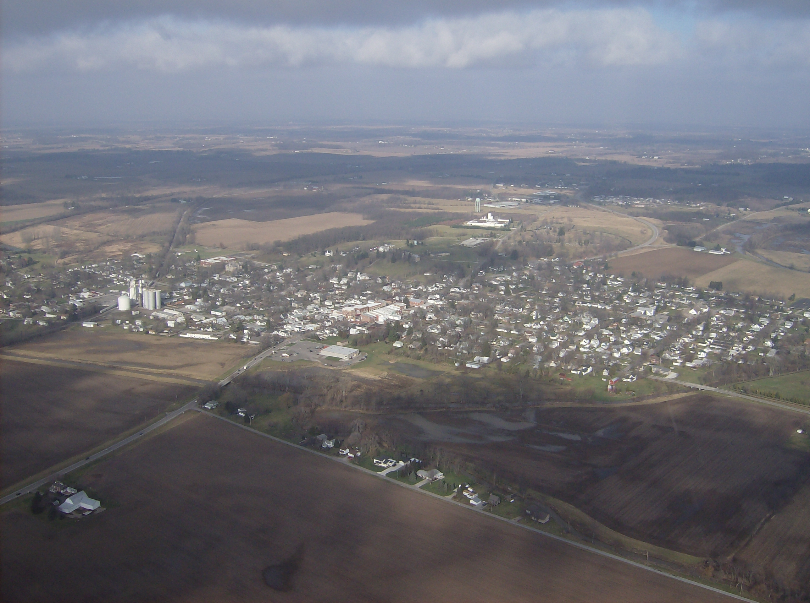 Aerial view of West Liberty, Ohio, United States, taken from Diamond Eclipse light airplane. Picture taken from an altitude of 2,300 feet MSL at an bearing of approximately 7º.